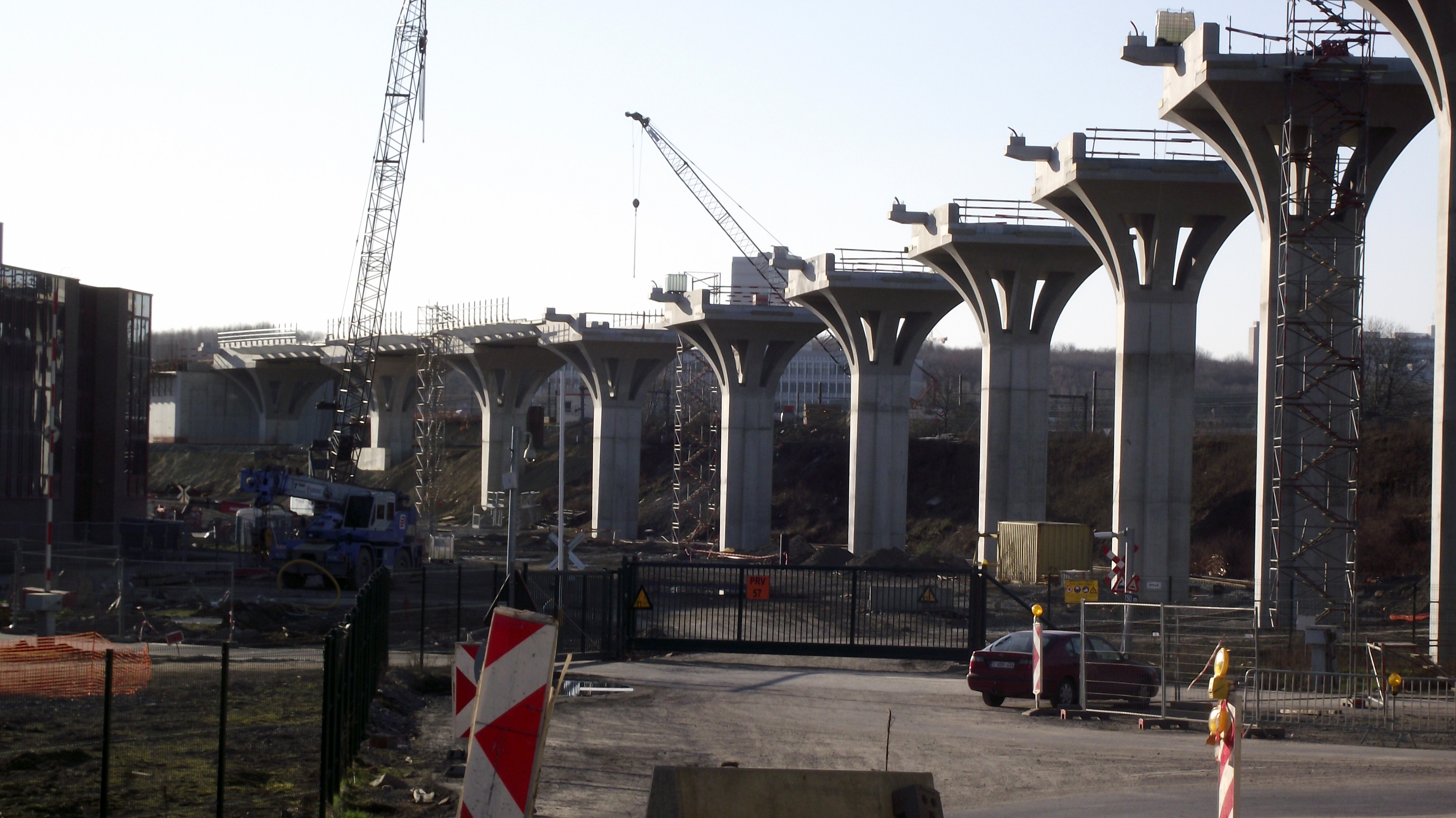 Construction of viaduct supports for railwayline 25N (diabolo project) in Haren over A railway yard.